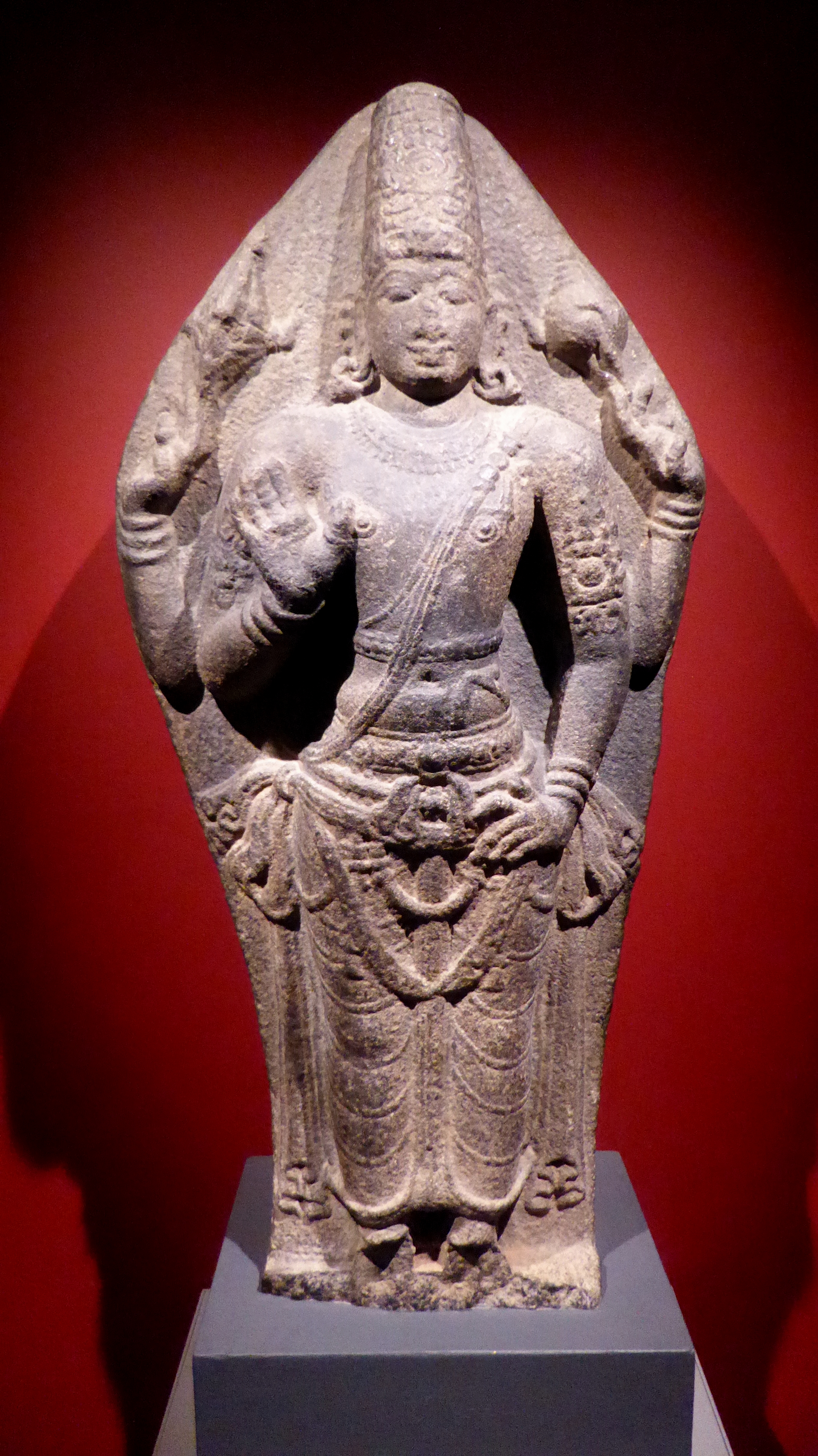 A granite statue of Vishnu from Tamilnadu. Created circa 850 to 950 CE, in the late Pallava period. Now on display in the Ashmolean Museum, Oxford.